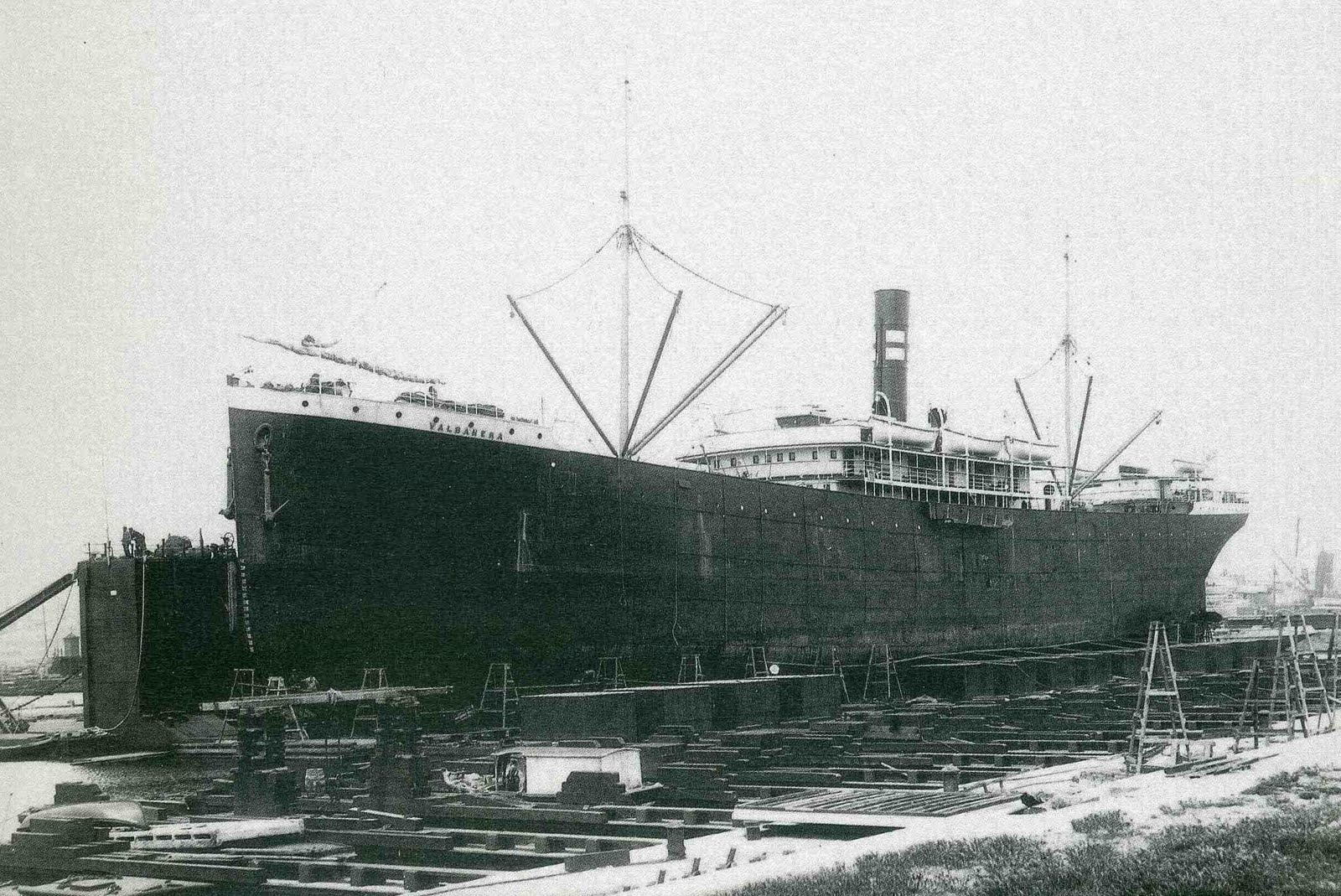 The Valbanera in the floating dock in Barcelona ( Photo of the Port Authority of Barcelona )